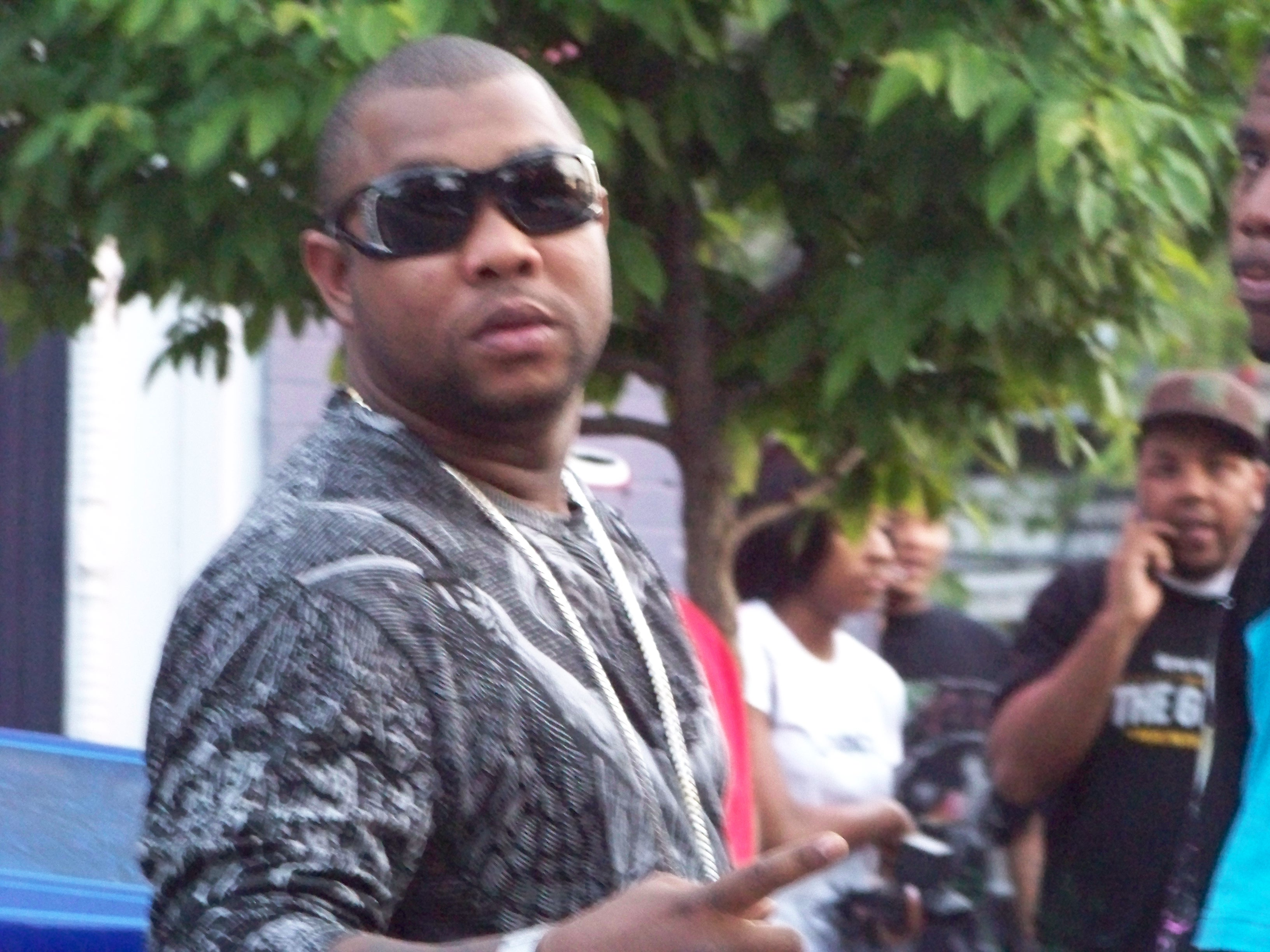 Gorilla Zoe at Over the Edge, Edgewood, Atlanta, Georgia